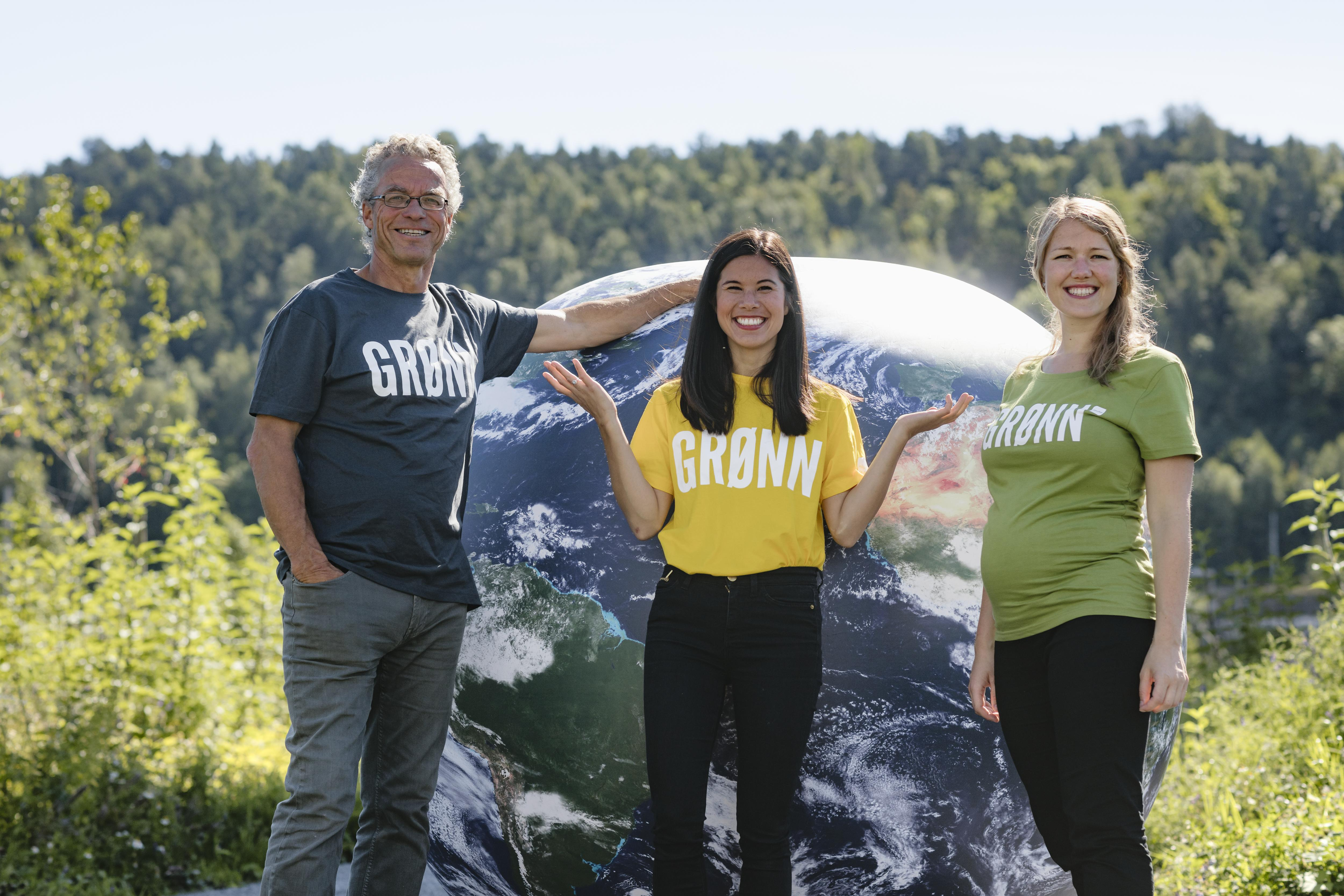 Rasmus Hansson, Lan Marie Nguyen Berg og Une Aina Bastholm Foto: Thomas Ekström